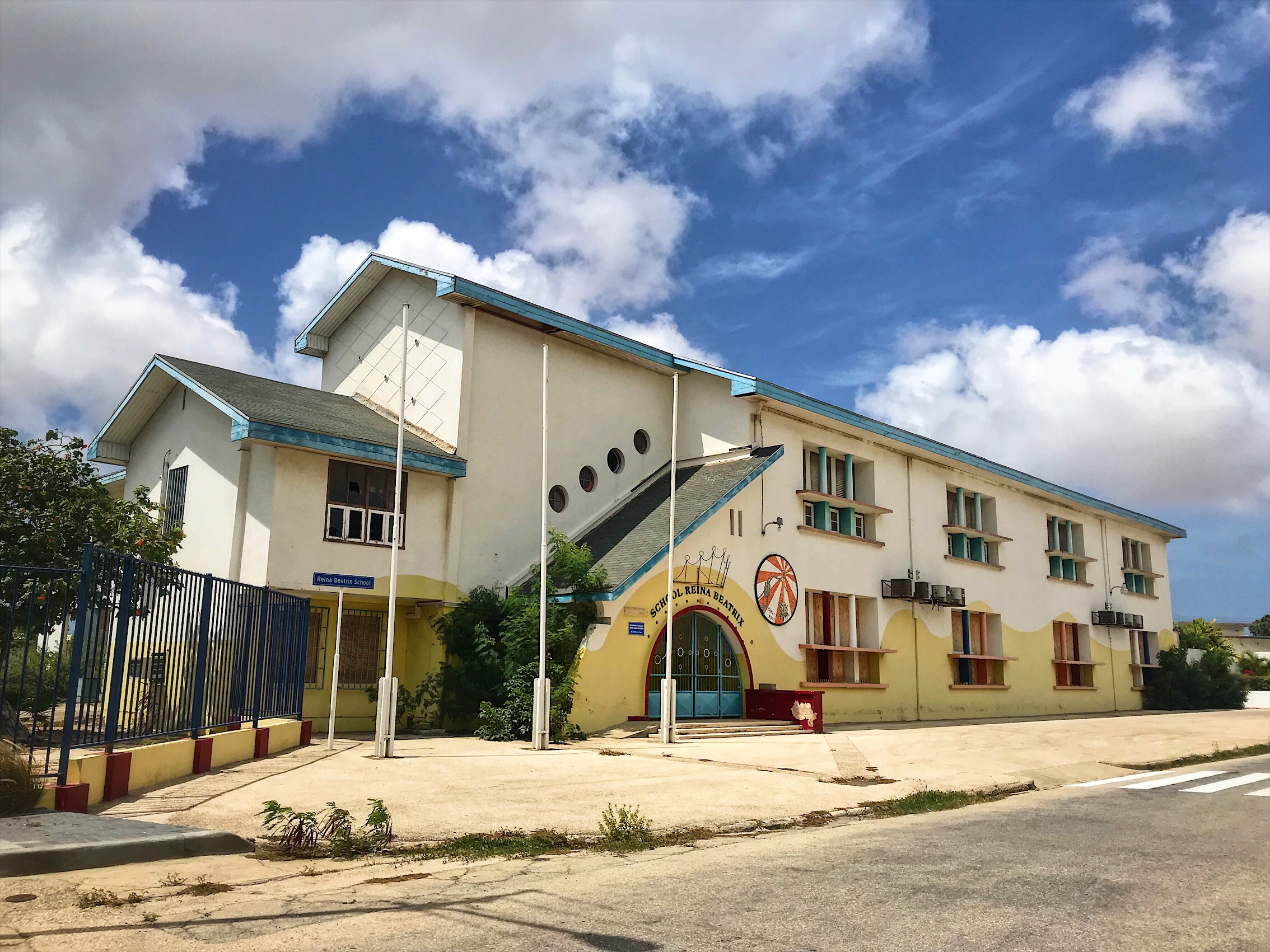 Reina Beatrix elementary School